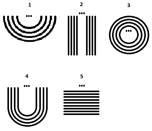 types of organising a parliament